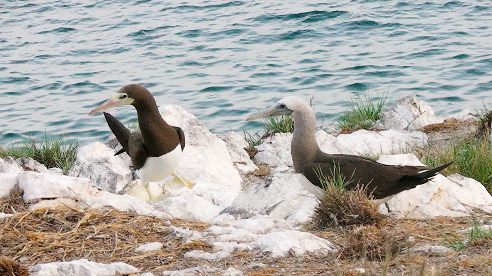 Brown booby couple (female left and male right) at their stick nest in Islas Marietas National Park, Mexico